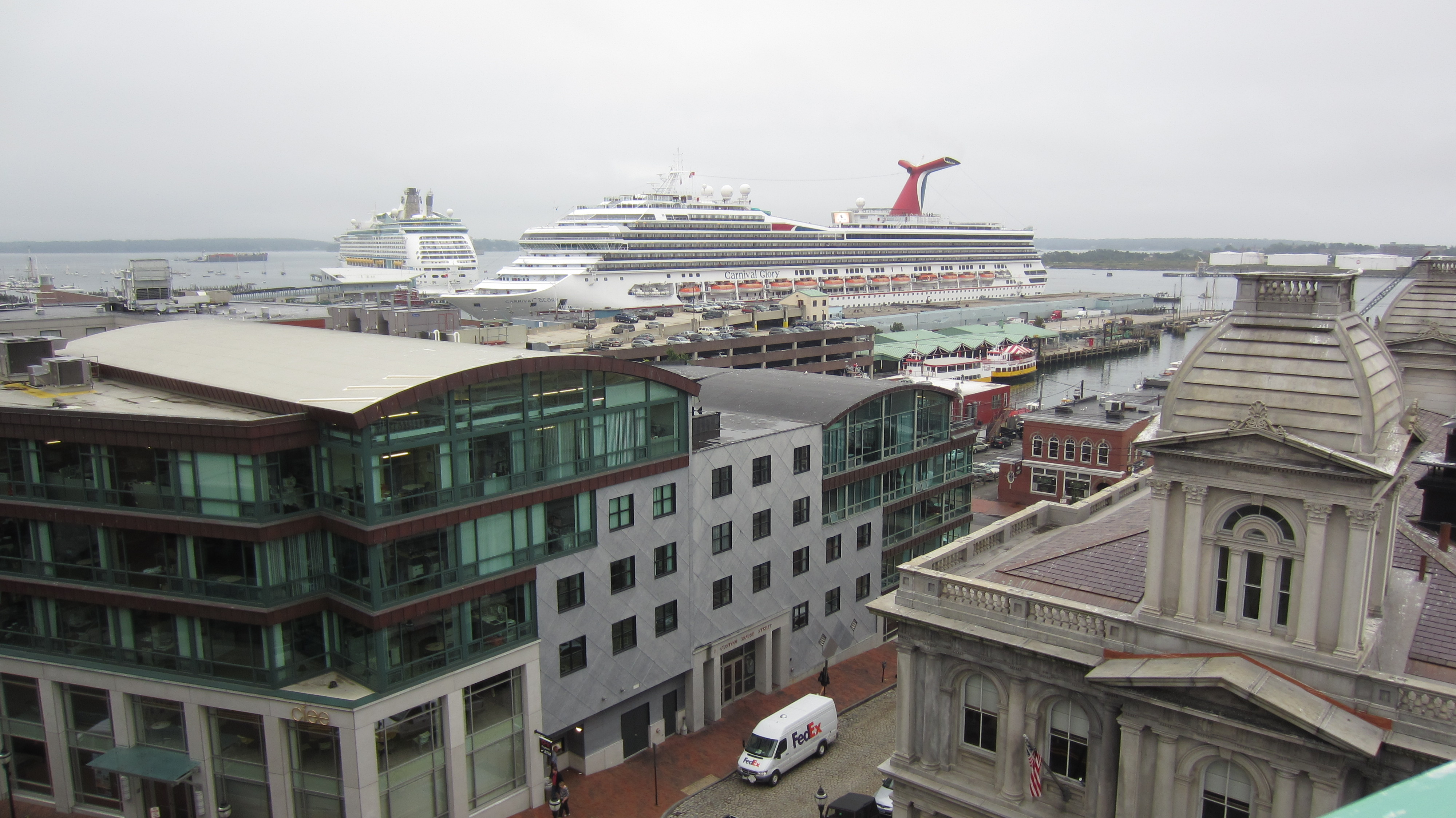 two giant cruise ships docked